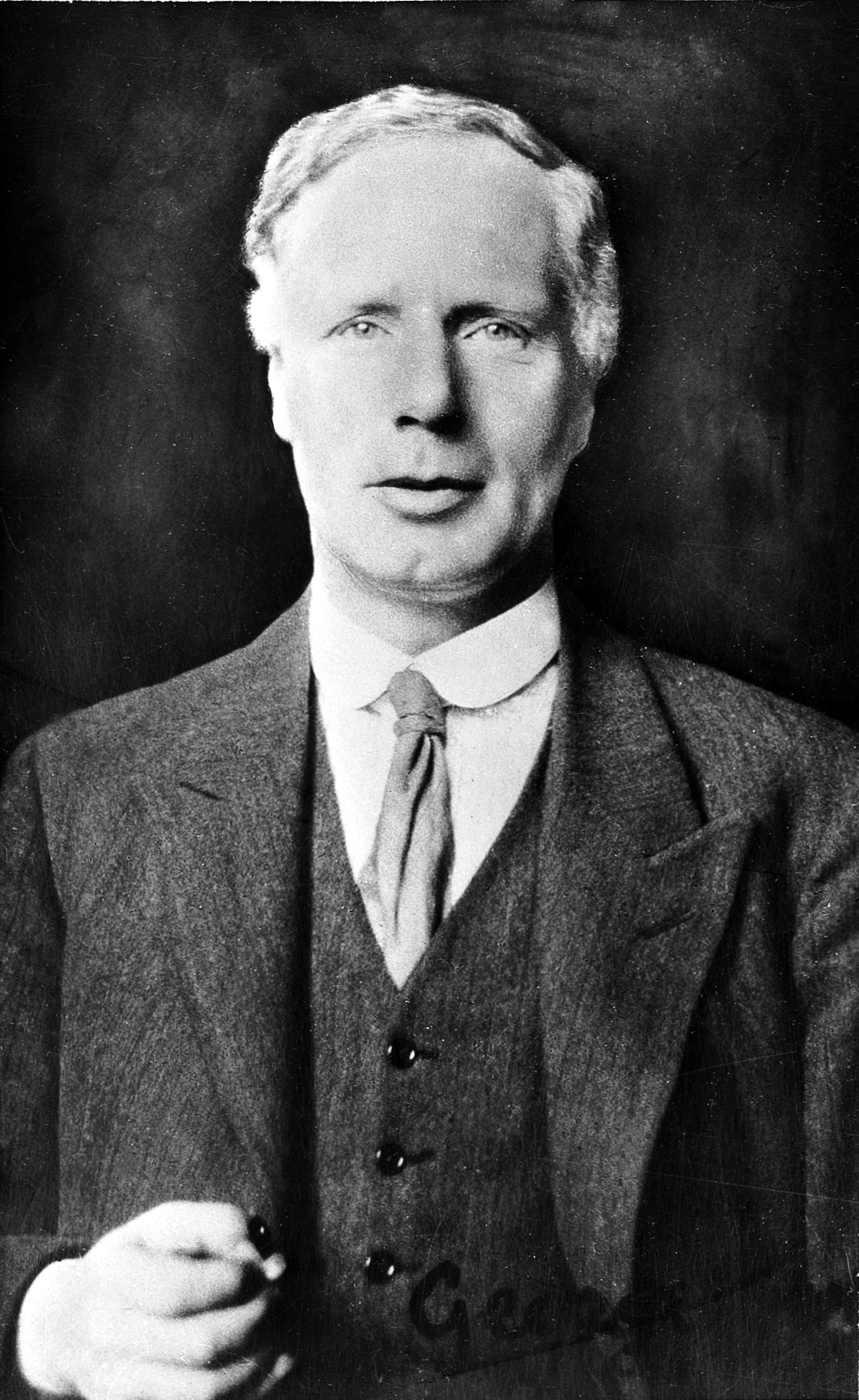 Portrait of George Barger M.A., D.Sc., F.R.S. Iconographic Collections Keywords: George Barger